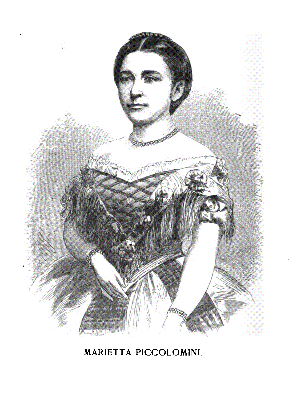 Marietta Piccolomini